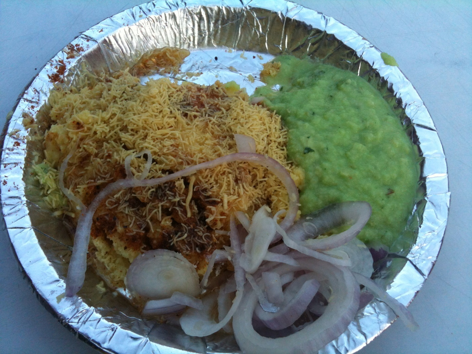 Locho - A popular Snack in Surat Area - Gujarat - India